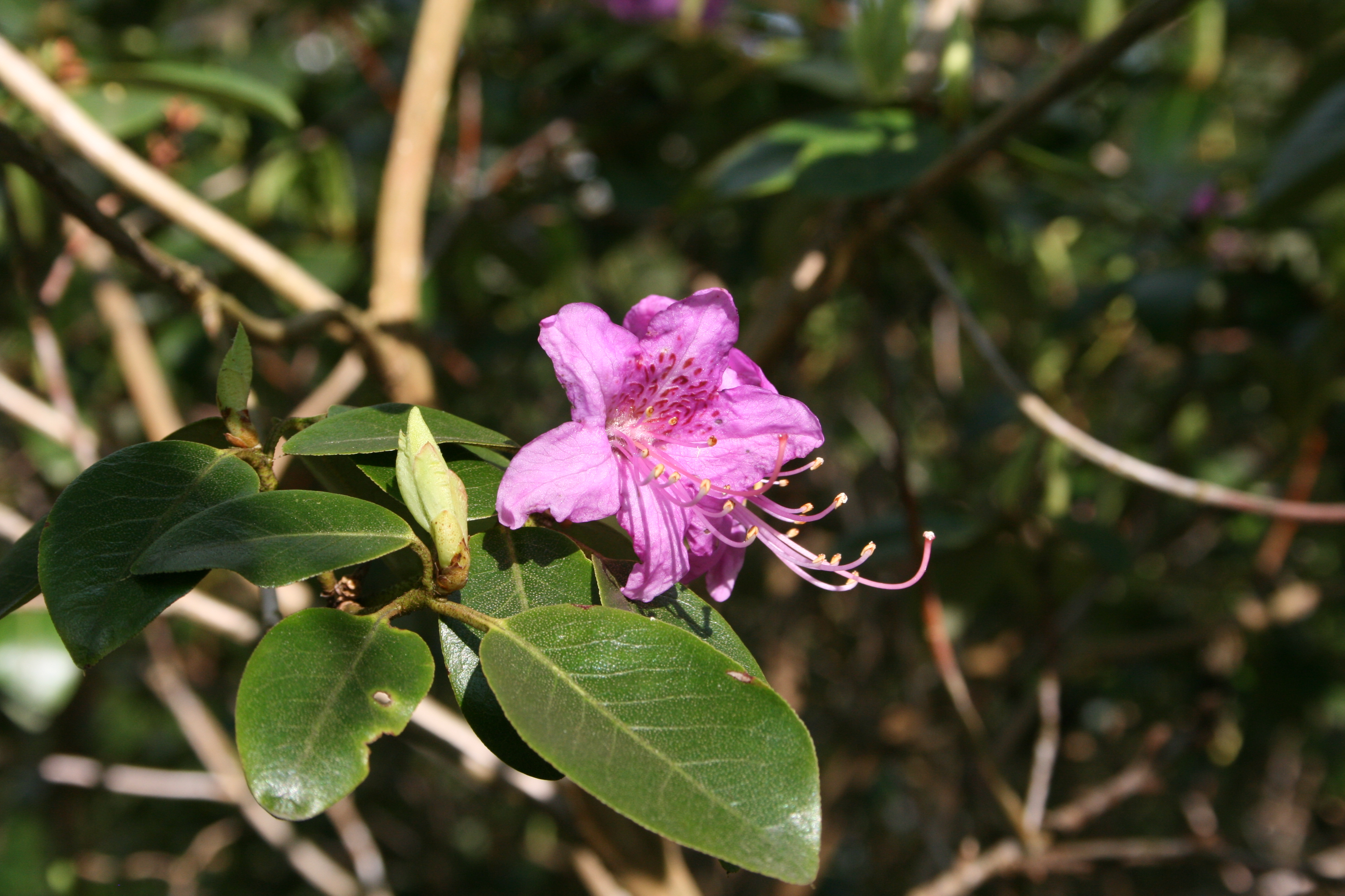 Rhododendron concinnum